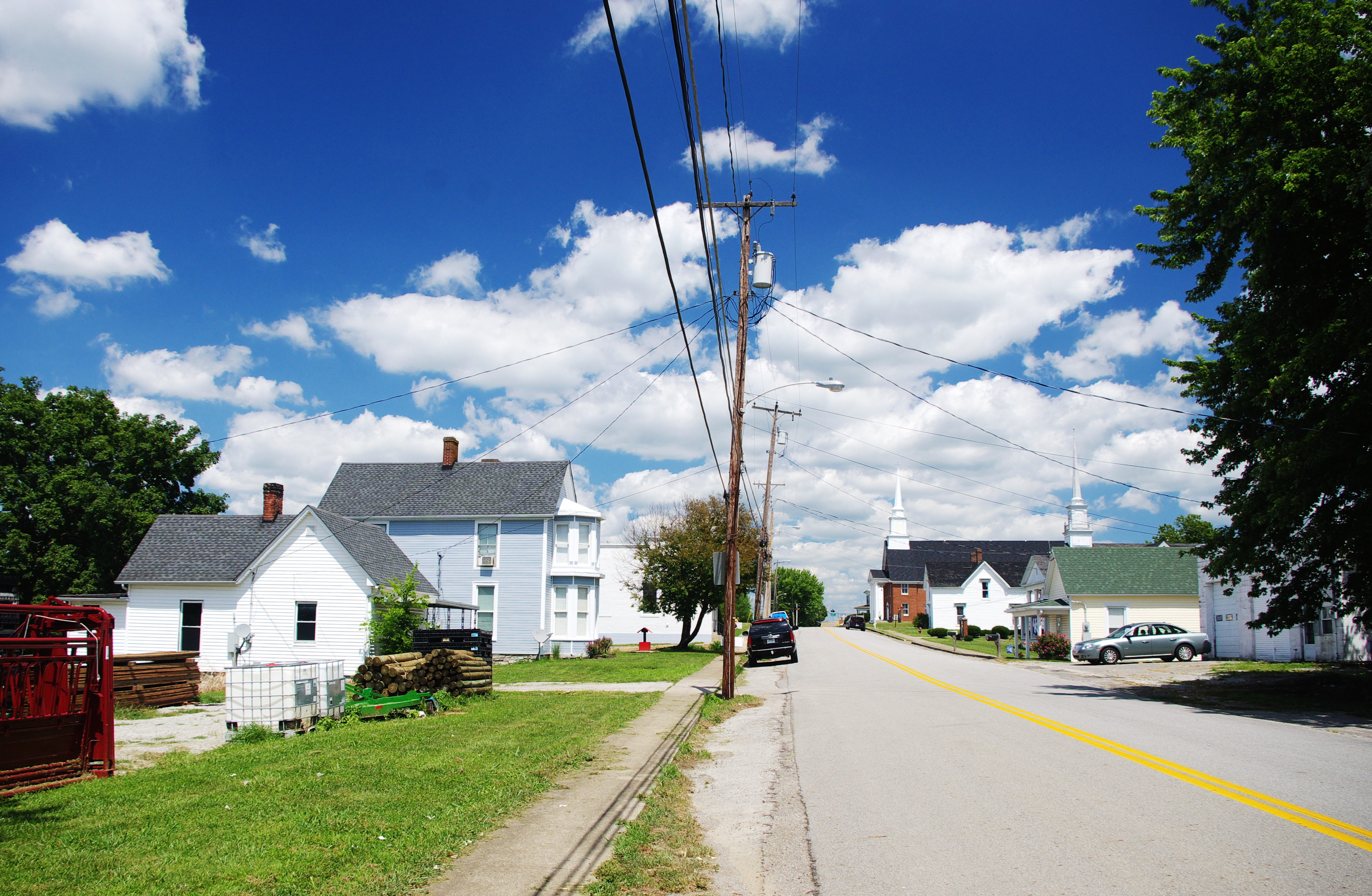 Kentucky Route 152 in Mackville, Kentucky, United States. The buildings in the picture are part of the Mackville Historic District.